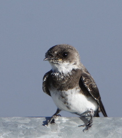 The bank swallow has a unique distinguishing characteristic in that it is the only swallow that does not build a nest. Instead it forages holes reference It is North America's smallest swallow.